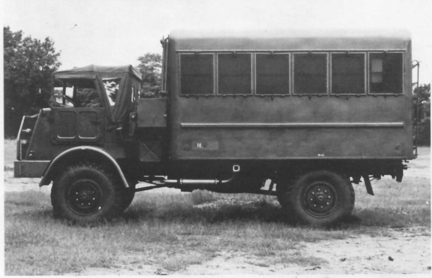 DAF YA-324 Radio truck.